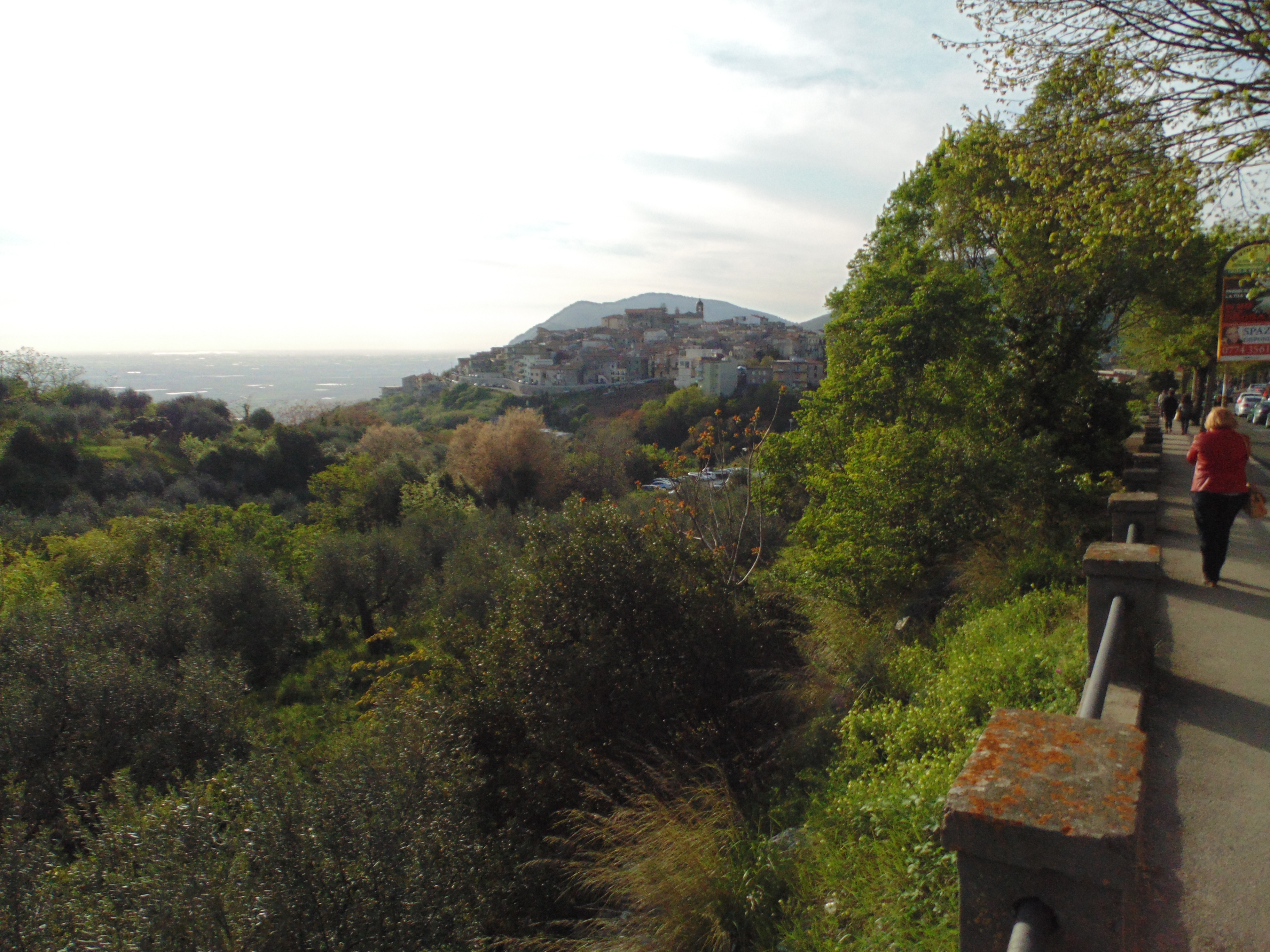 Sezze, Province of Latina, Italy